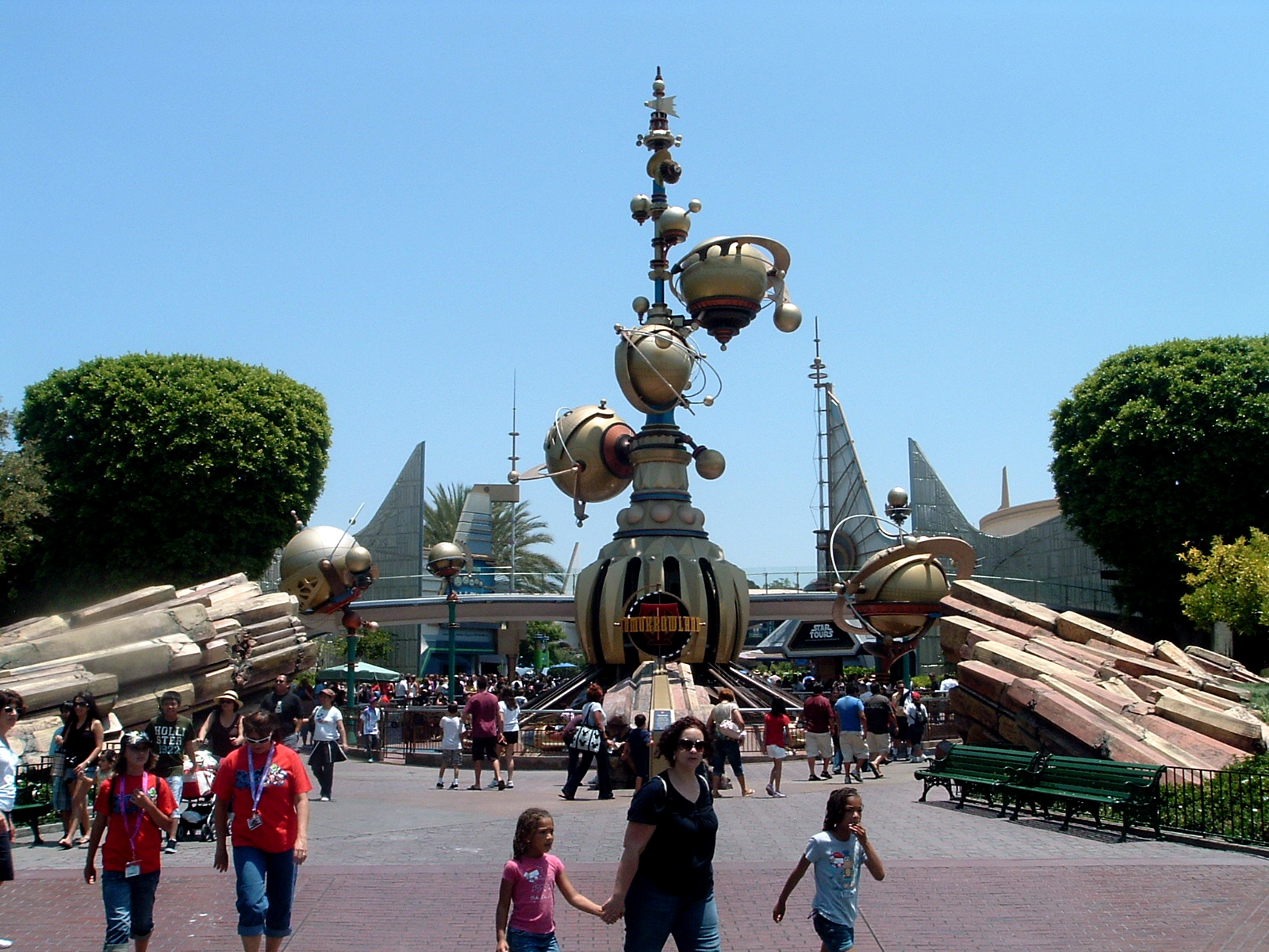 Tomorrowland as seen from Main Street, U.S.A.